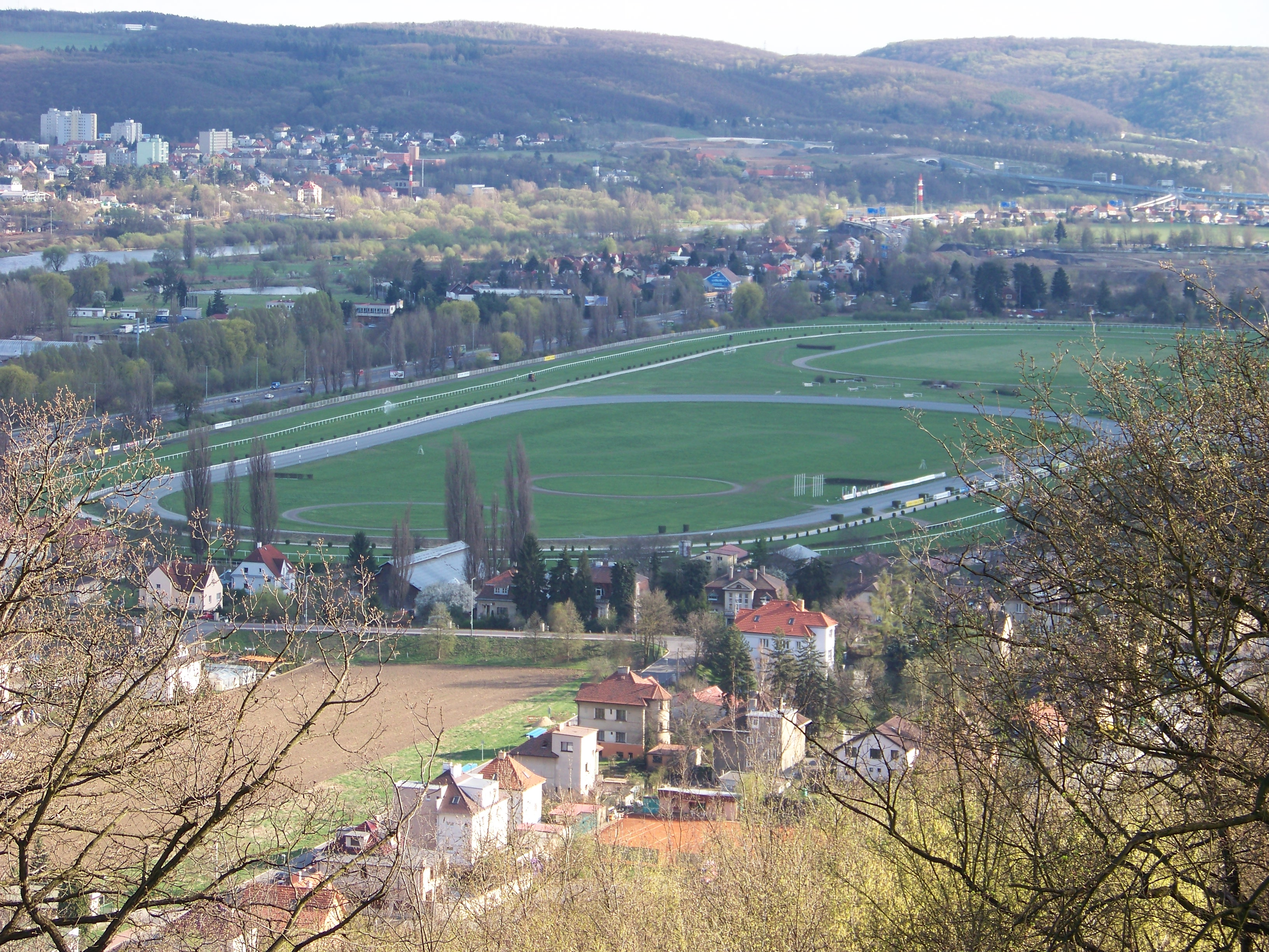 Prague, the Czech Republic. A view of Velká Chuchle Racecourse from Saint John of Nepomuk Church in Chuchle Forest. - Google Maps - Google Earth